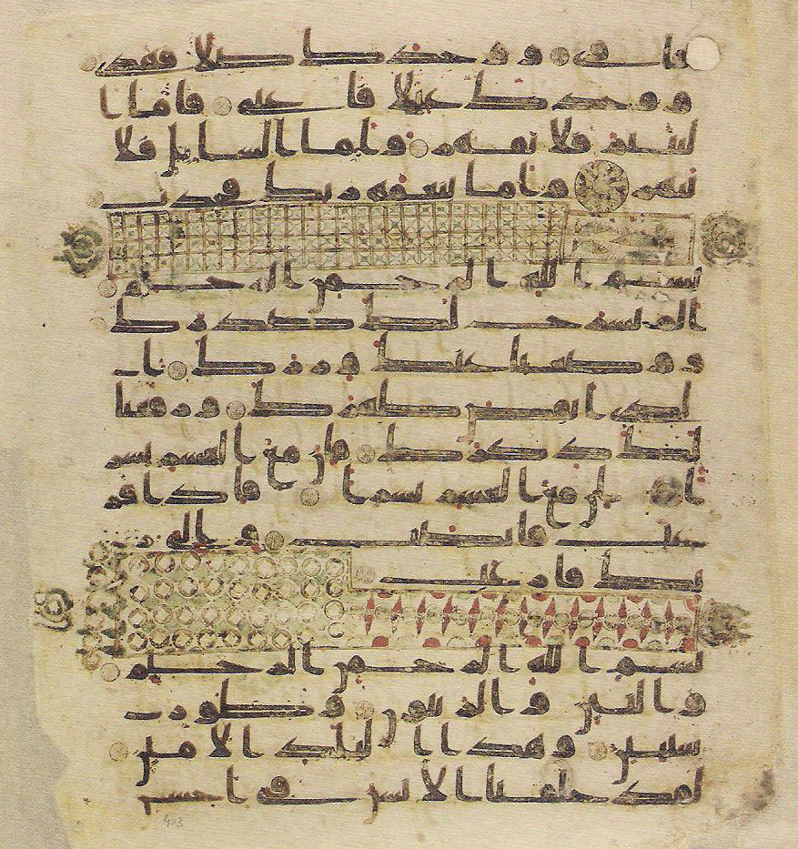 Topkapı manuscript of the Quran, written around 800 CE, folio with Sura 93:6-95:4